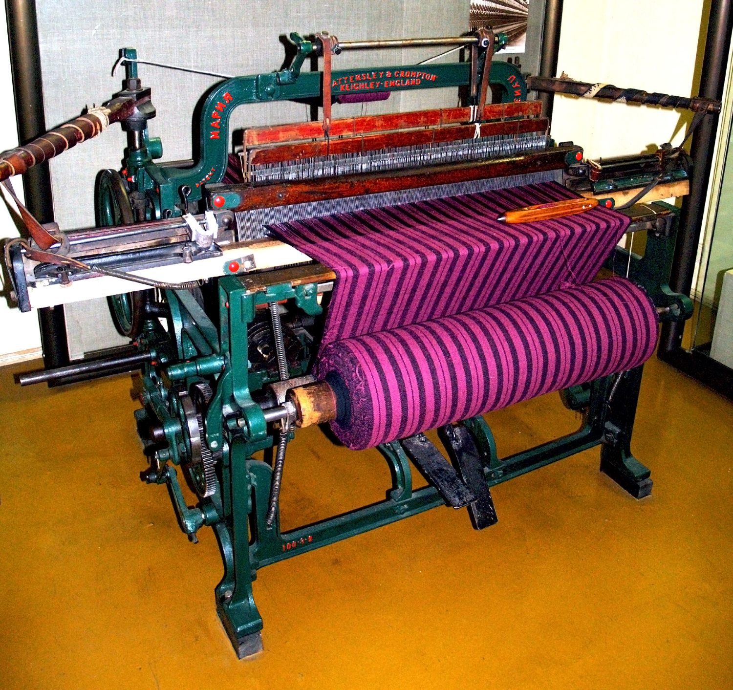 Pedal-driven weaving machine, produced by Hattersley and Crompton Keighley-England in 1893 from the National Museum of Textile Industry, Sliven, Bulgaria. This seems similar to the Hattersley & Sons treadle driven Domestic Loom, the frame is also labelled in Cyrillic script.